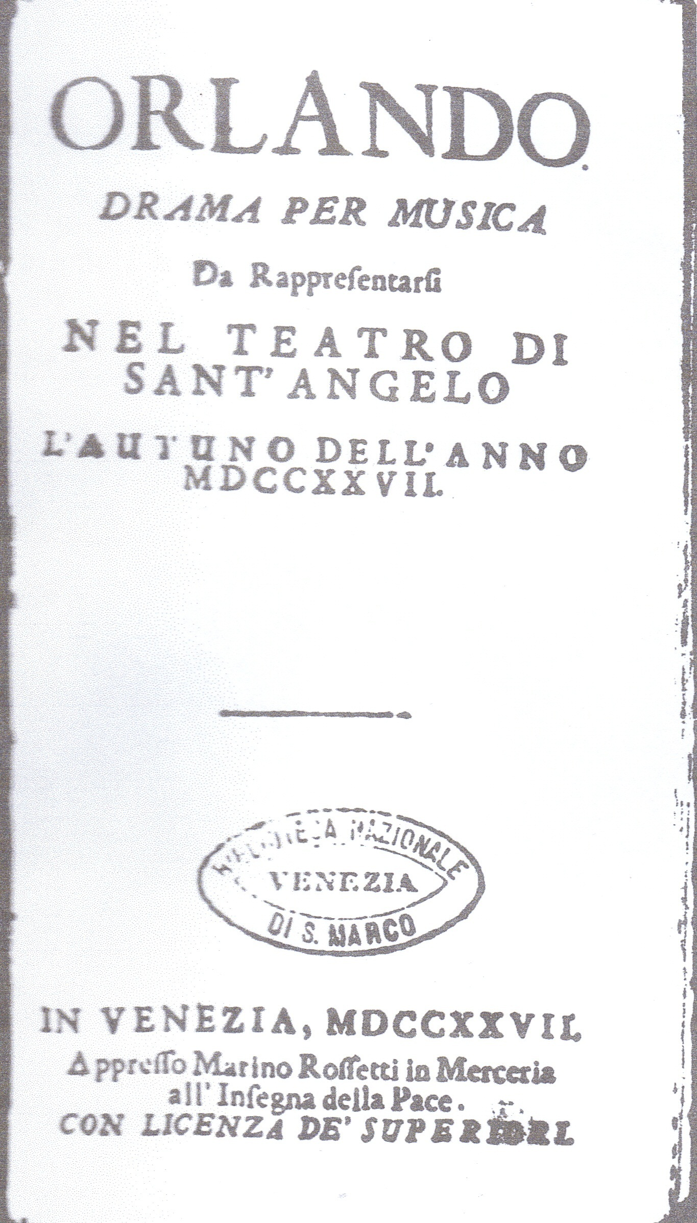 Title-page of the original edition of the libretto of Vivaldi's Orlando (furioso), by Grazio Braccioli with adjustements